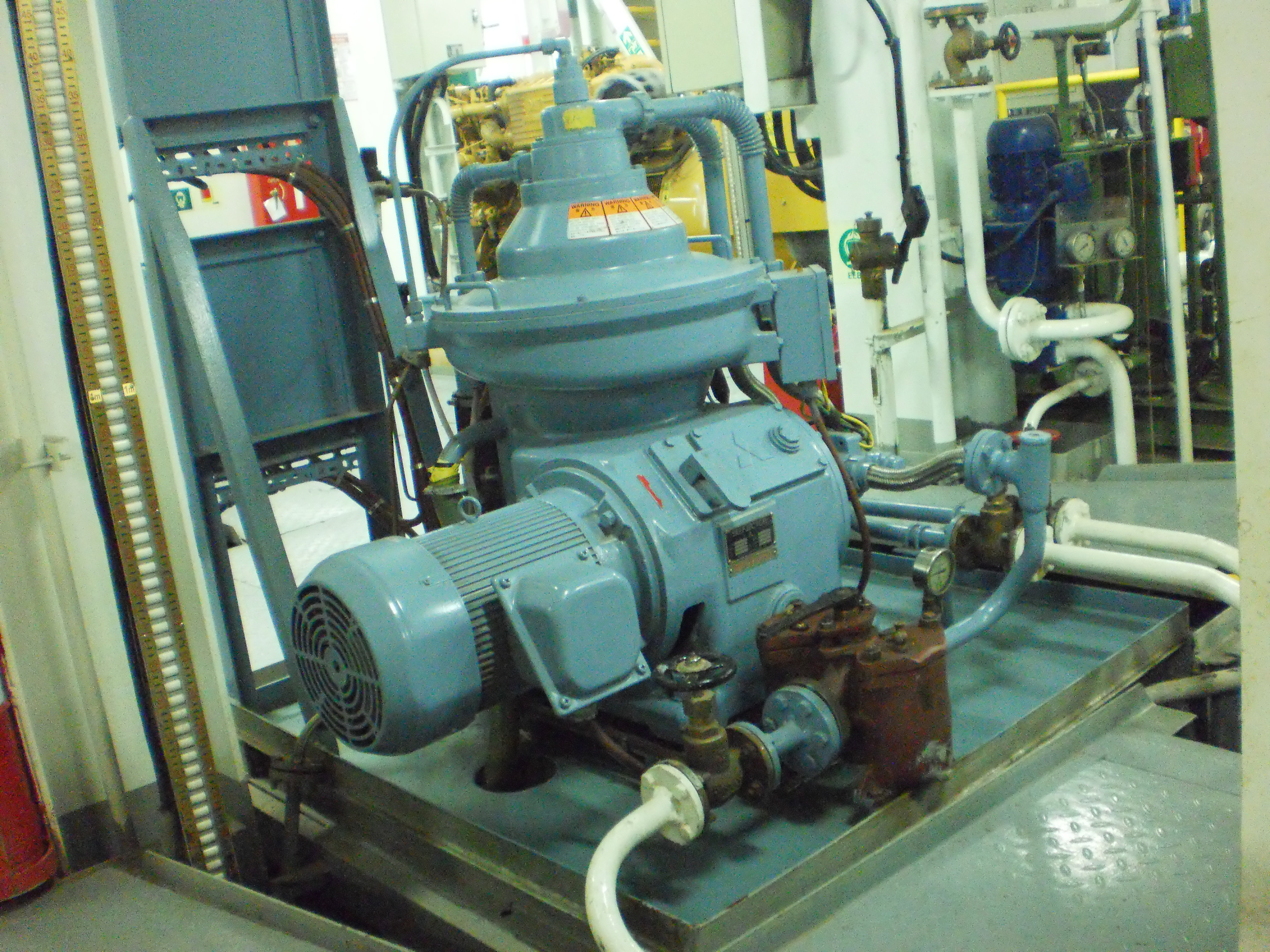 Fuel oil separator on AHTS vessel